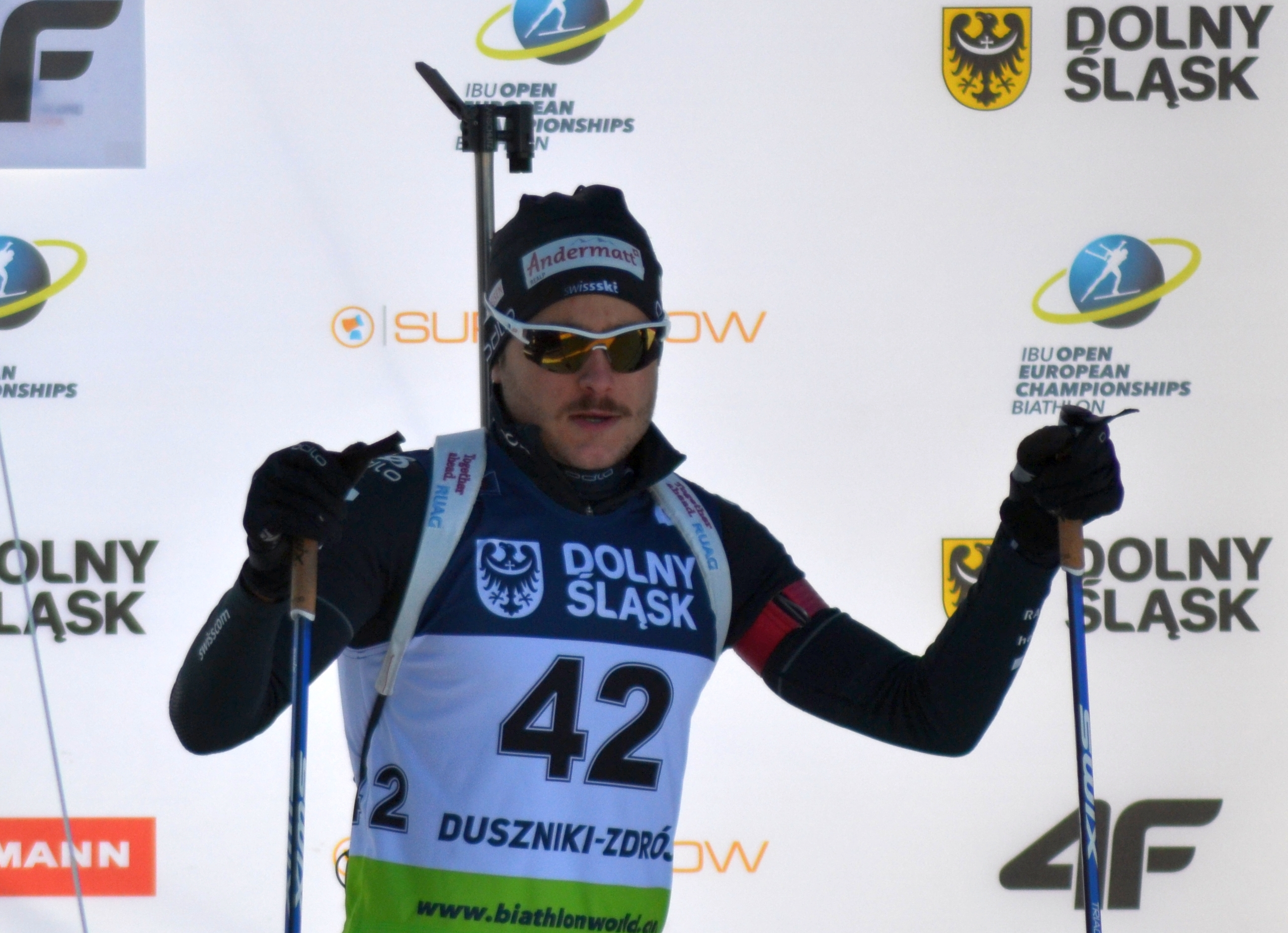 Open European Championships Biathlon 2017, Sprint Men's race, held on January 27th.